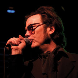 Joe Hurley performing live at Joe's Pub in New York City.